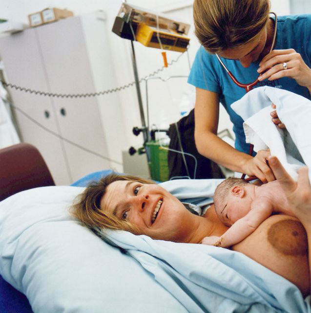 Childbirth.